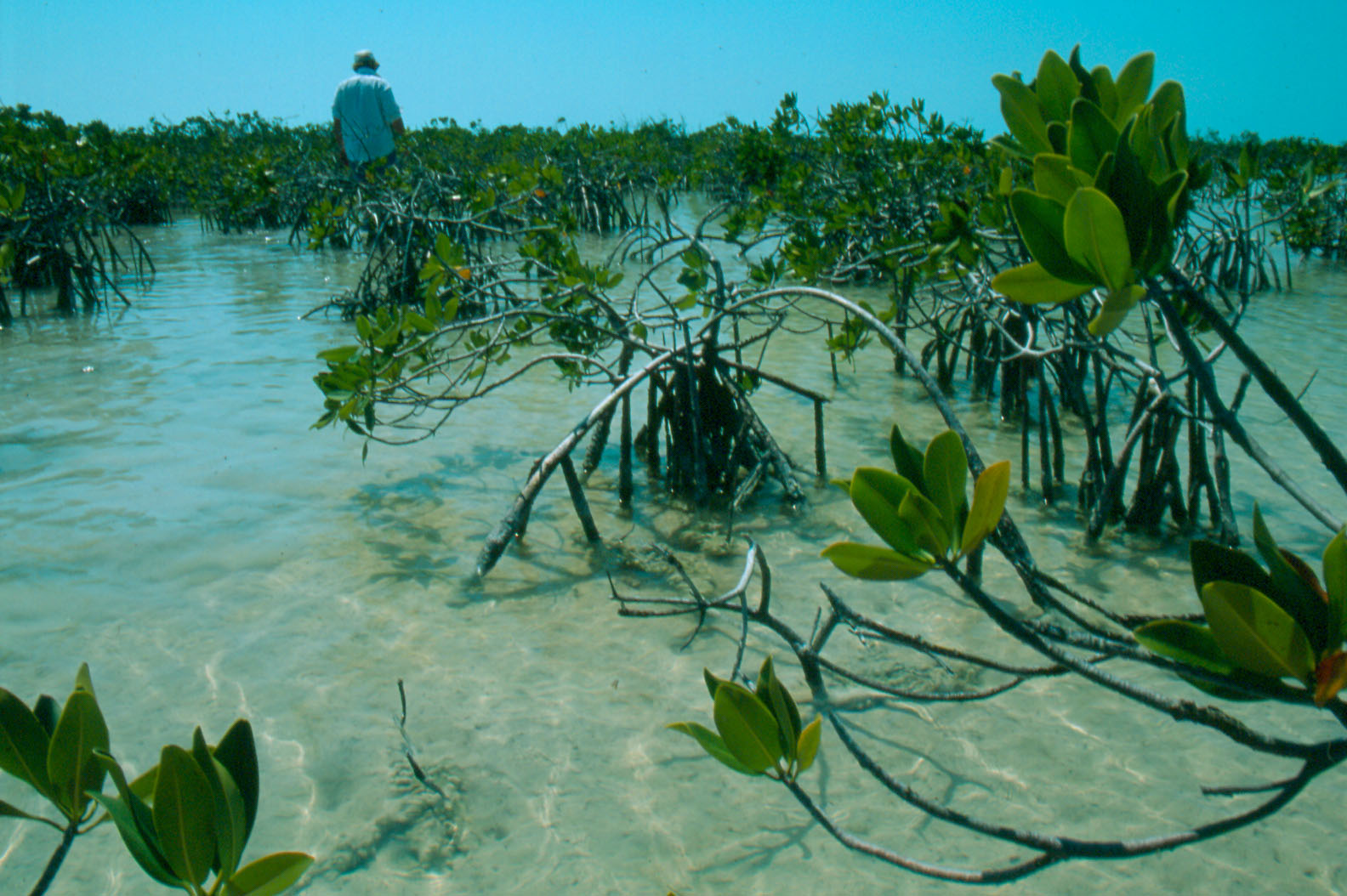 Young mangroves and carbonate mud in the internal part of the lagoon - Florida bay, summer 2000. Author: Nereo Preto, Italy.